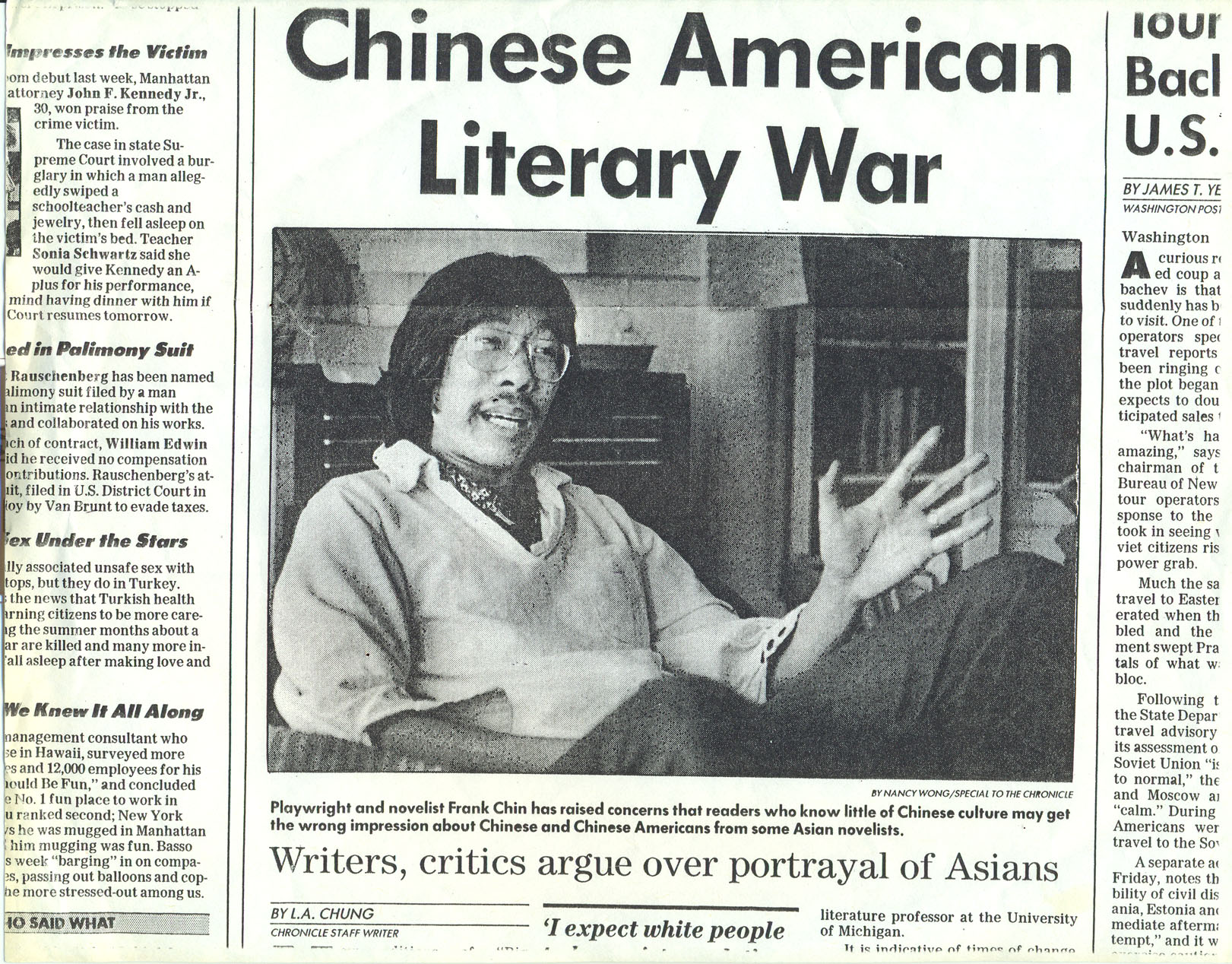 SFCHRONICLE TEARSHEET, Datebook section of article about playwright Frank Chin